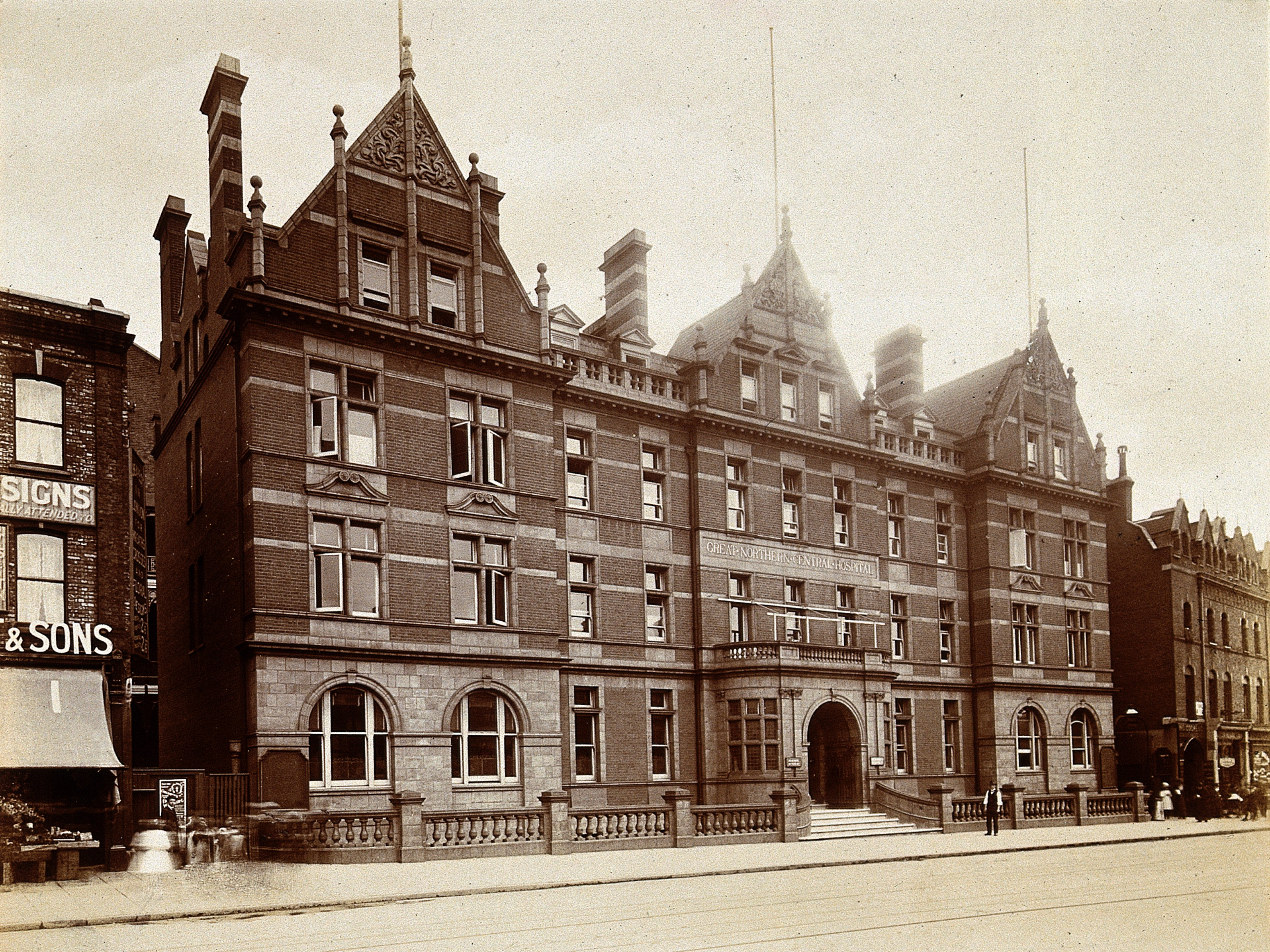 Great Northern Central Hospital, Holloway Road, London: front view. Photograph, c. 1912. Iconographic Collections Keywords: great northern central hospita; Great Northern Central Hospital (London)